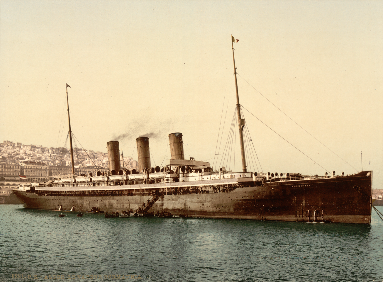 "This photochrome print of the steamship Normannia in the harbor in Algiers is part of “Views of People and Sites in Algeria” from the catalog of the Detroit Publishing Company (1905). Constructed in Glasgow, Scotland, in 1890, the Normannia was one of four twin-propeller steamers belonging to the Hamburg-American Line that regularly crossed the Atlantic from Hamburg, Germany, and Southampton, England to New York. The ship was 8,242 GRT, was 152.40 meters long and 17.53 meters wide. Normannia was severely damaged in January 1894, when a huge tidal wave struck the ship as it sailed from New York to Algiers."